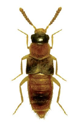 Dorsal view of Gyrophaena (G.) pseudocriddlei (apical part of abdomen removed).